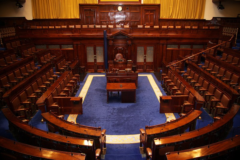 This is a photograph of the Dáil chamber, Leinster House, Kildare Street, Dublin Ireland. It is the chamber and seat of Irish Government where Irish parliamentarians (TD's) govern Ireland. The photograph was taken on 28th of June, 2008 at the inaugural opening of the Houses of the Oireachtas (parliament) for a 'family fun day'. This we were told (by the guides) was the first time that photography was permitted inside the Dáil chamber.